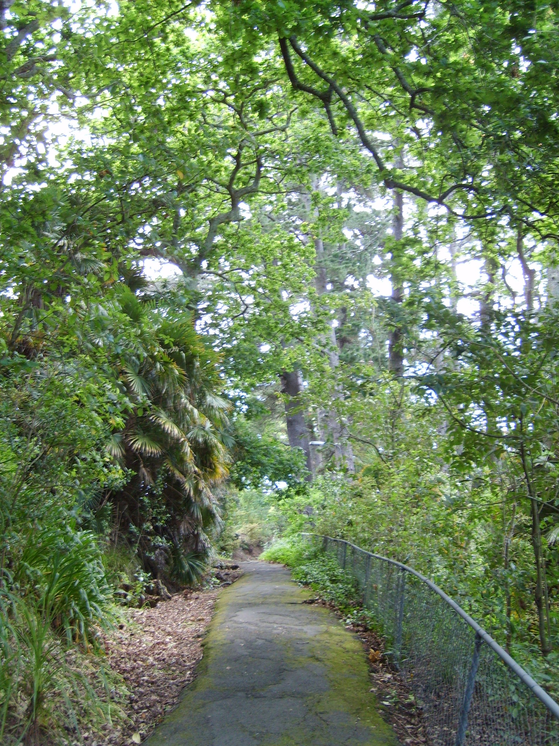 One of the footpaths leading through the grounds of Chelsea Sugar Refinery